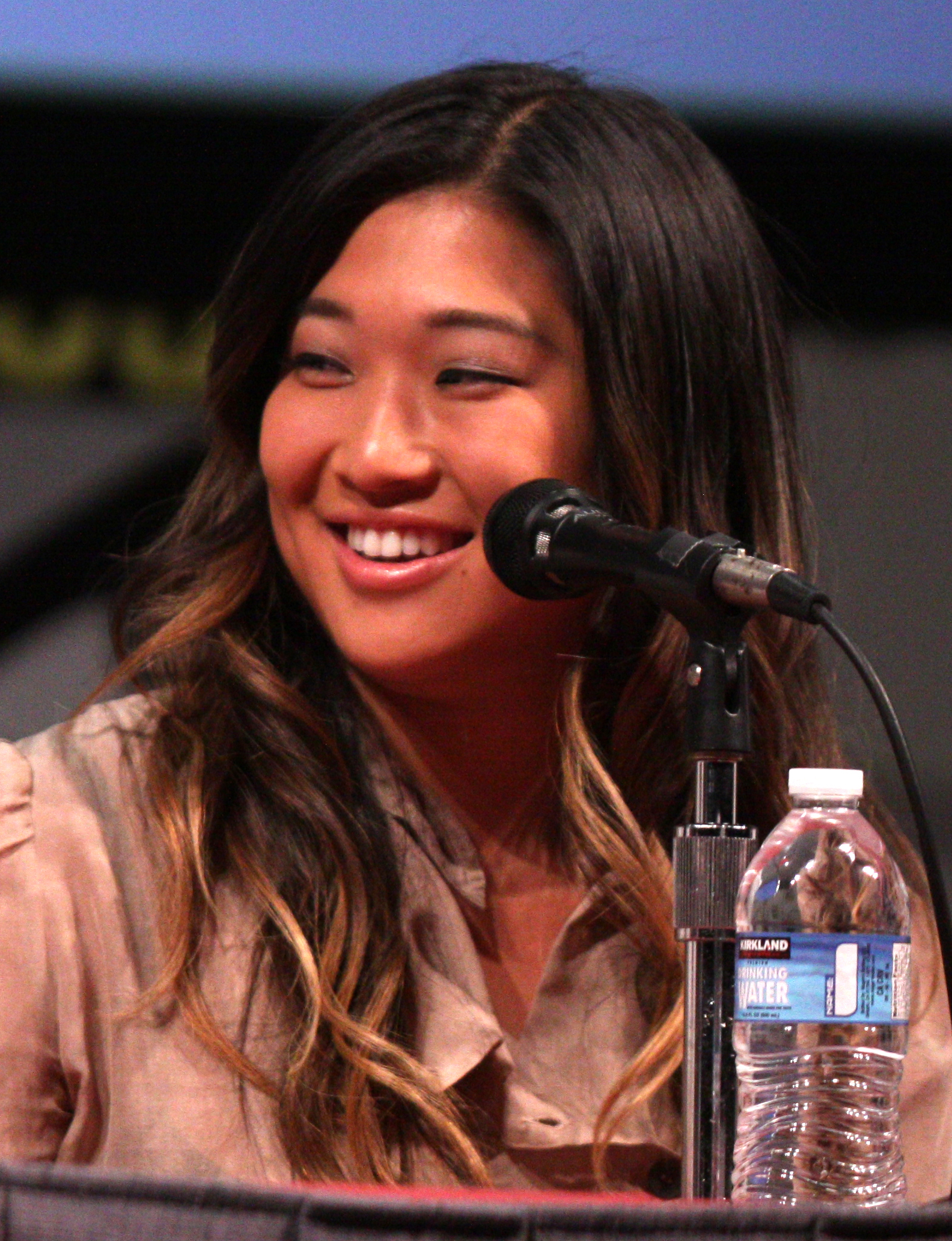 Crop of "Jenna Ushkowitz Skidmore 2011", taken by Gage Skidmore at San Diego Comic Con International 2011, of Jenna Ushkowitz at the Glee panel